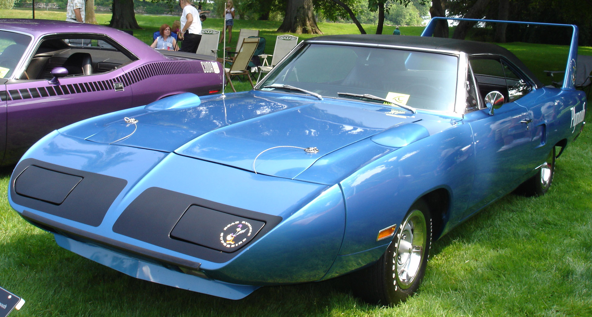 1970 Plymouth Roadrunner Superbird